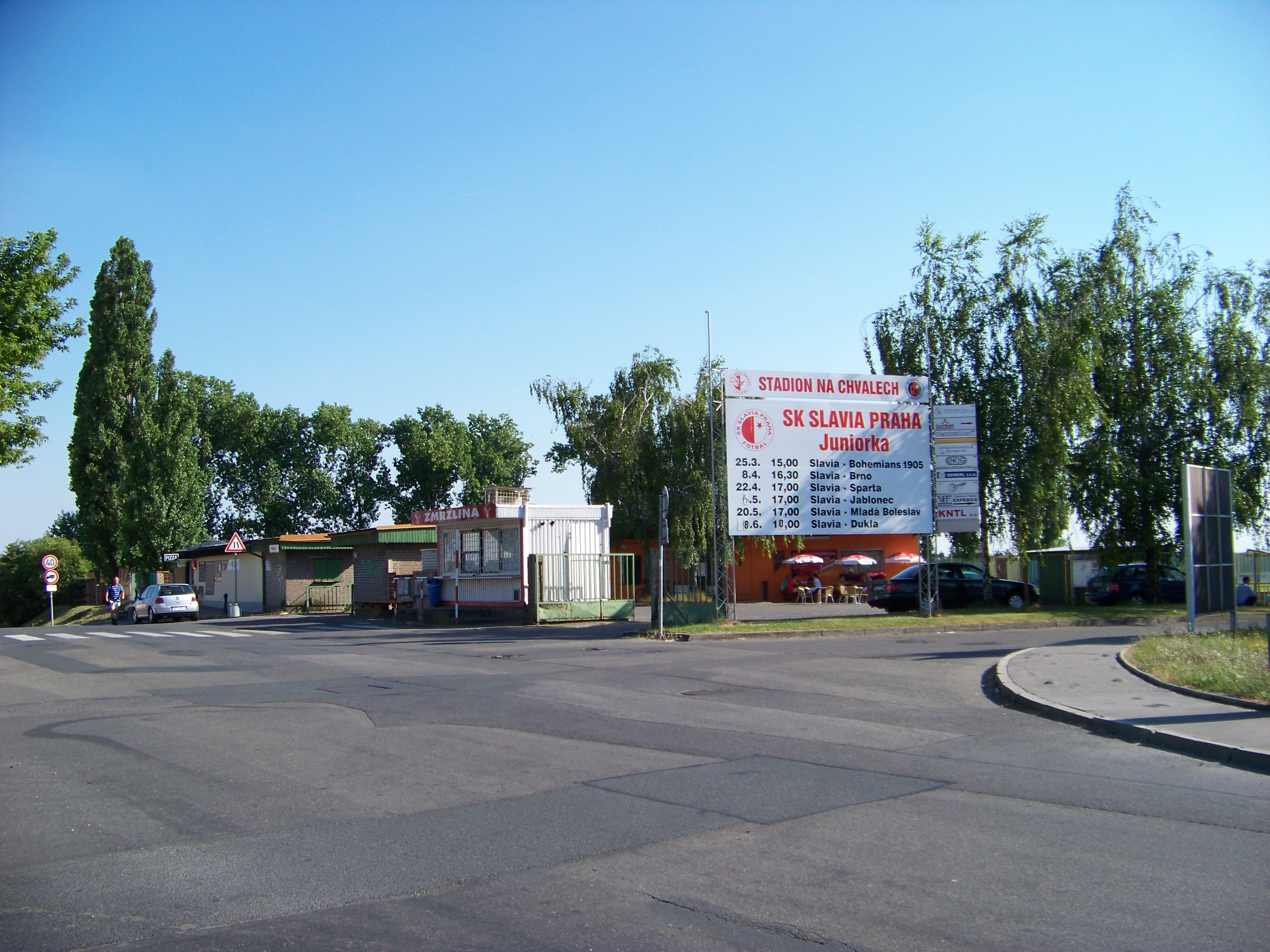 Prague-Horní Počernice. Chvaly, Božanovská street, Na Chvalech stadium. - OpenStreetMap(Info)